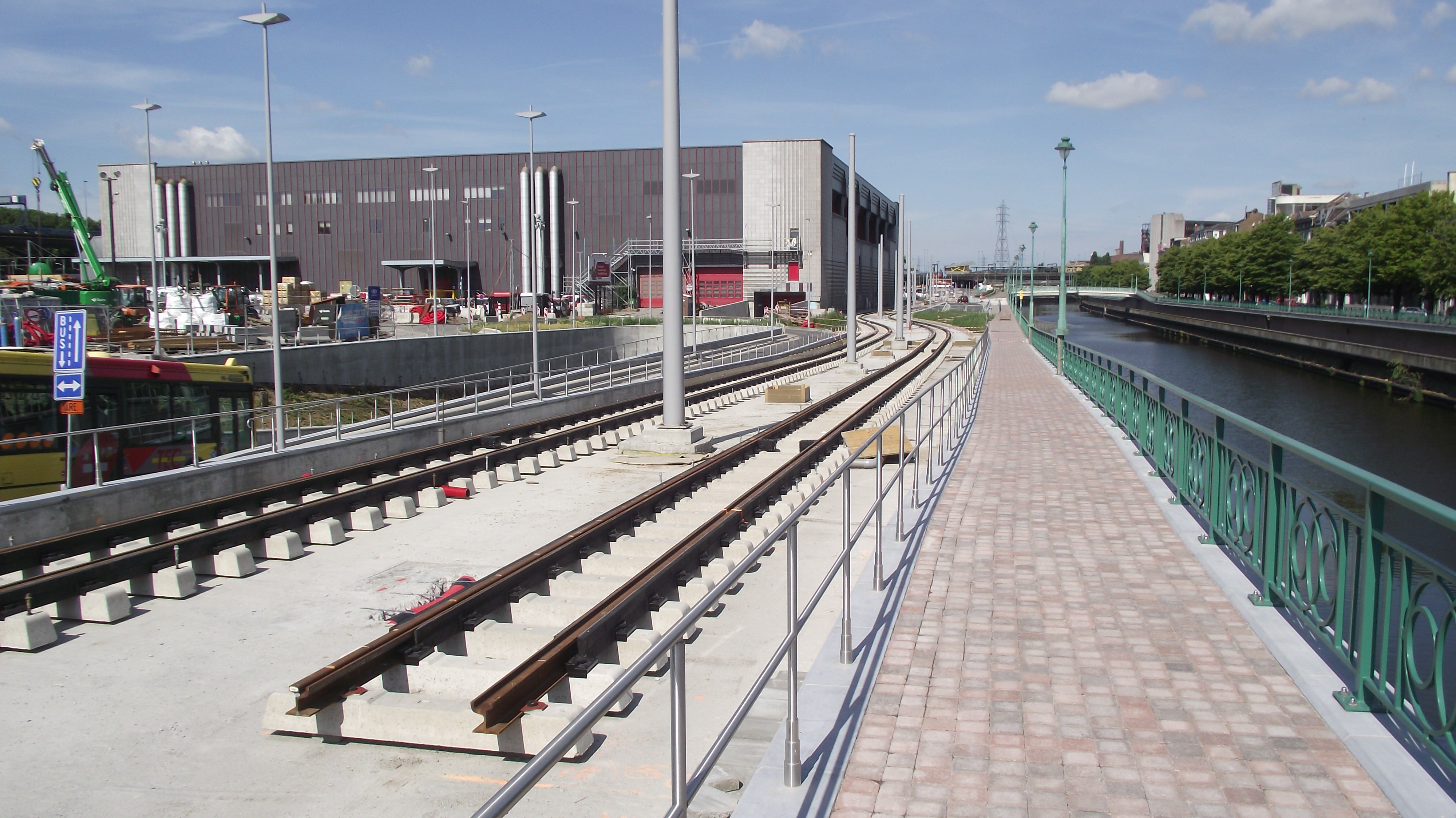 The laying of new tracks for the new tramring of the Charleroi premetro.